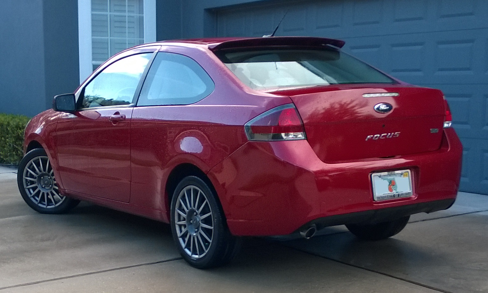 2009 Ford Focus SES coupe (North America)